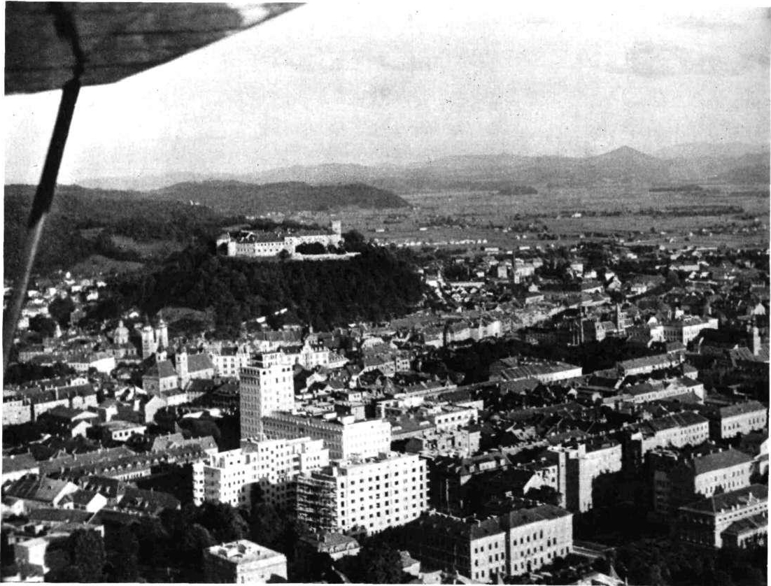 Aerial photograph of Ljubljana